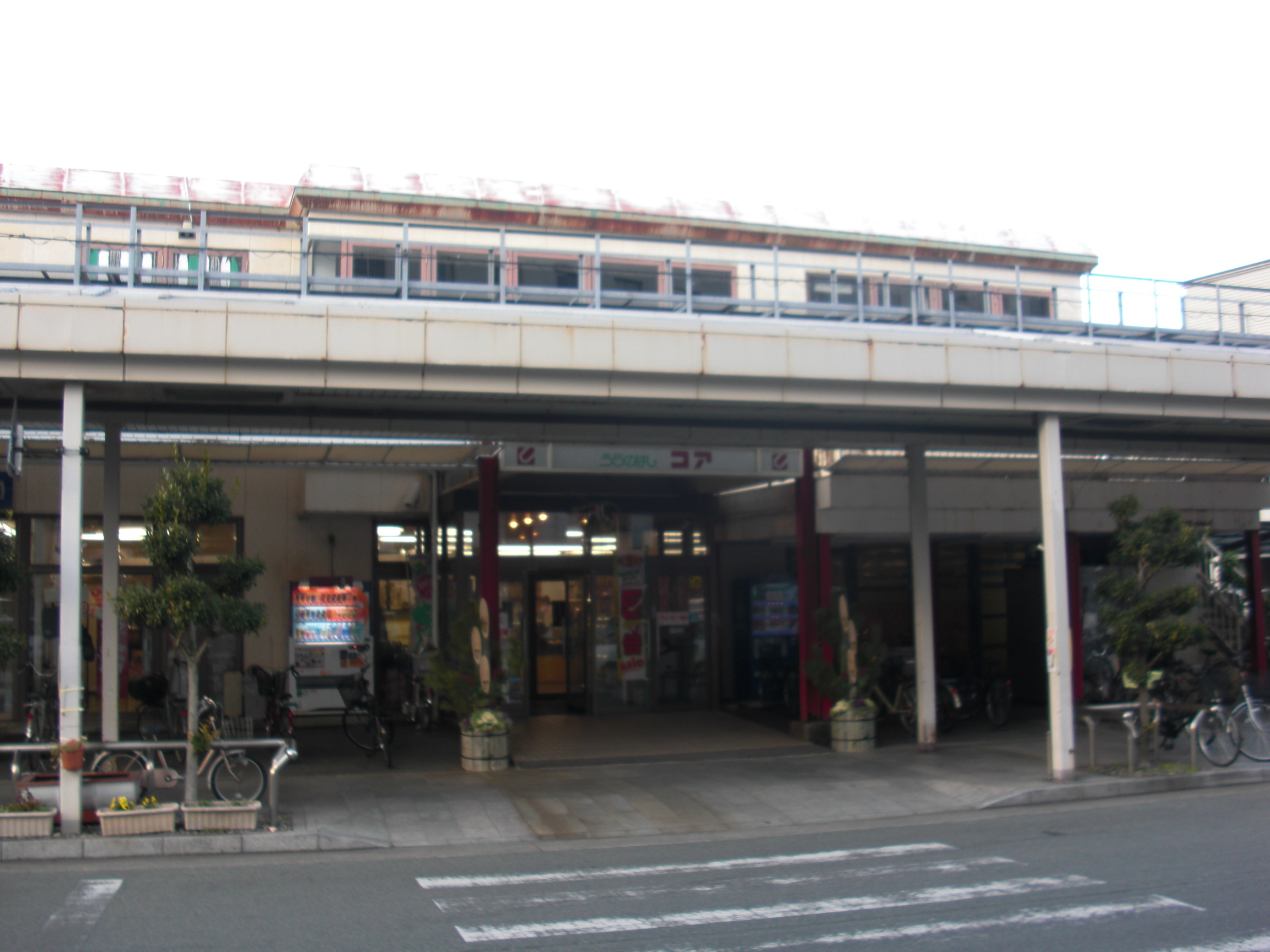 Center commercial facilities of "Uranohashi Shopping street" in Ise City Mie Prefecture Japan.